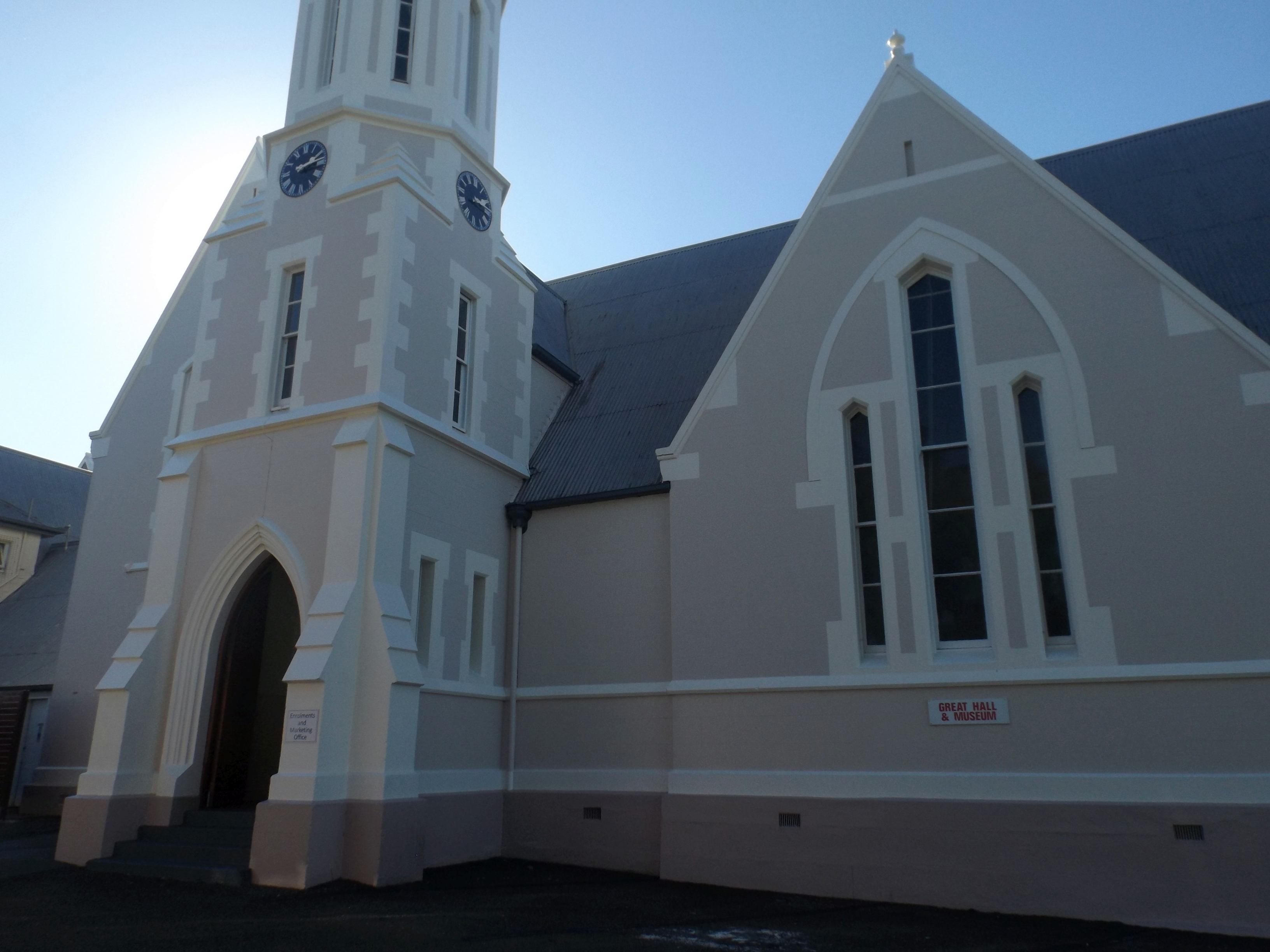 Ipswich Grammar School at Woodend, Ipswich, Queensland, Australia.